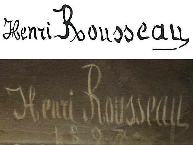 autograph of the painter Henri Rousseau